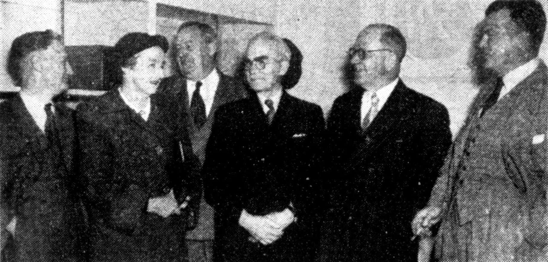 Doctors discussing silicosis in Newcastle, Australia. MJ Stewart, Ethel Byrne, KG Outhred, WE George, FA Morrison, B Short.